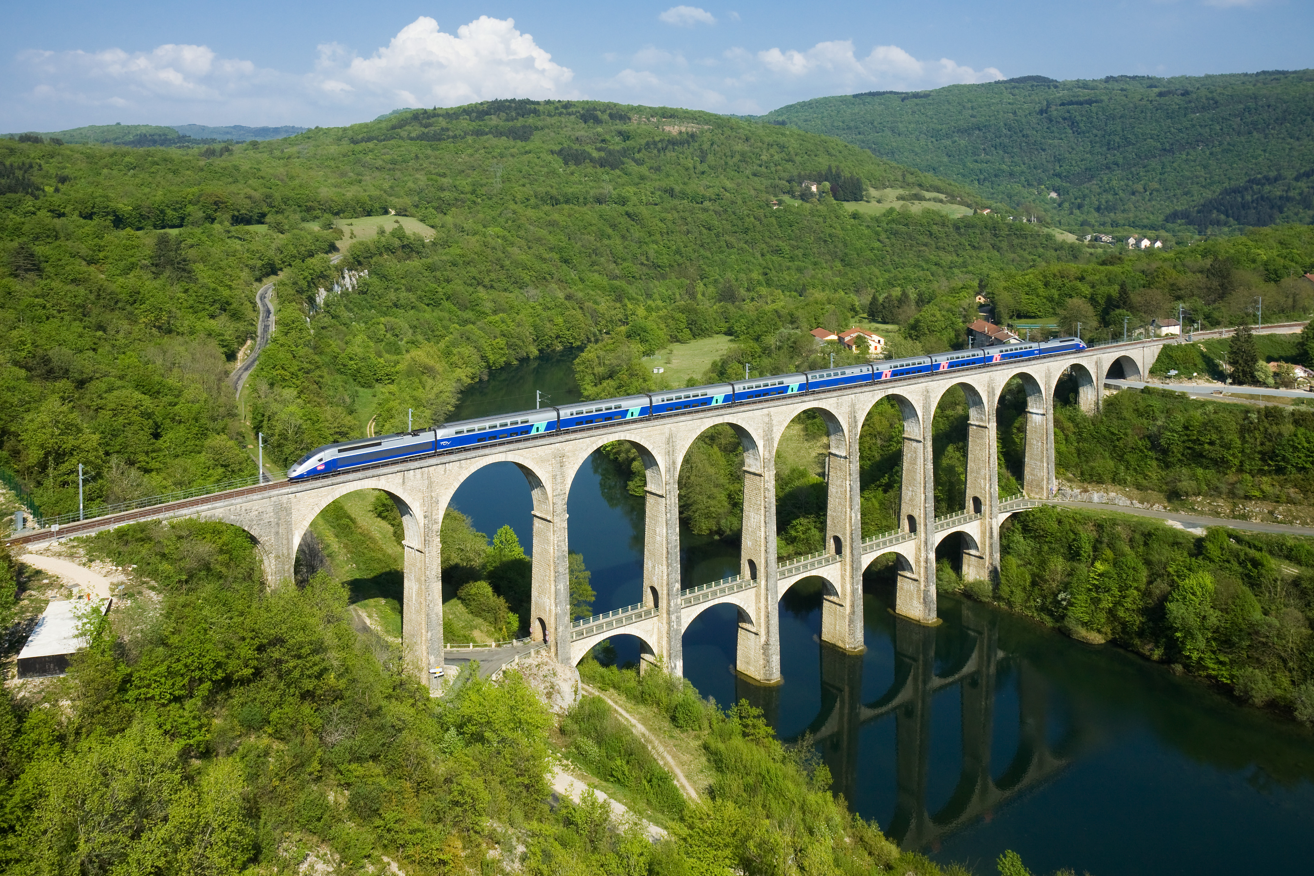 A SNCF TGV Duplex trainset is crossing the Cize - Bolozon viaduct over the Ain river. The viaduct is part of the Haut-Bugey line, which was reopened in December 2010 for TGV services between Geneva and Paris.